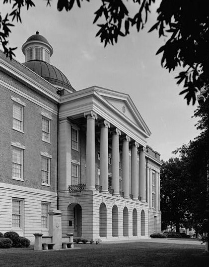 Old State Capitol, 100 North State Street, Jackson (Hinds County, Mississippi) (cropped)